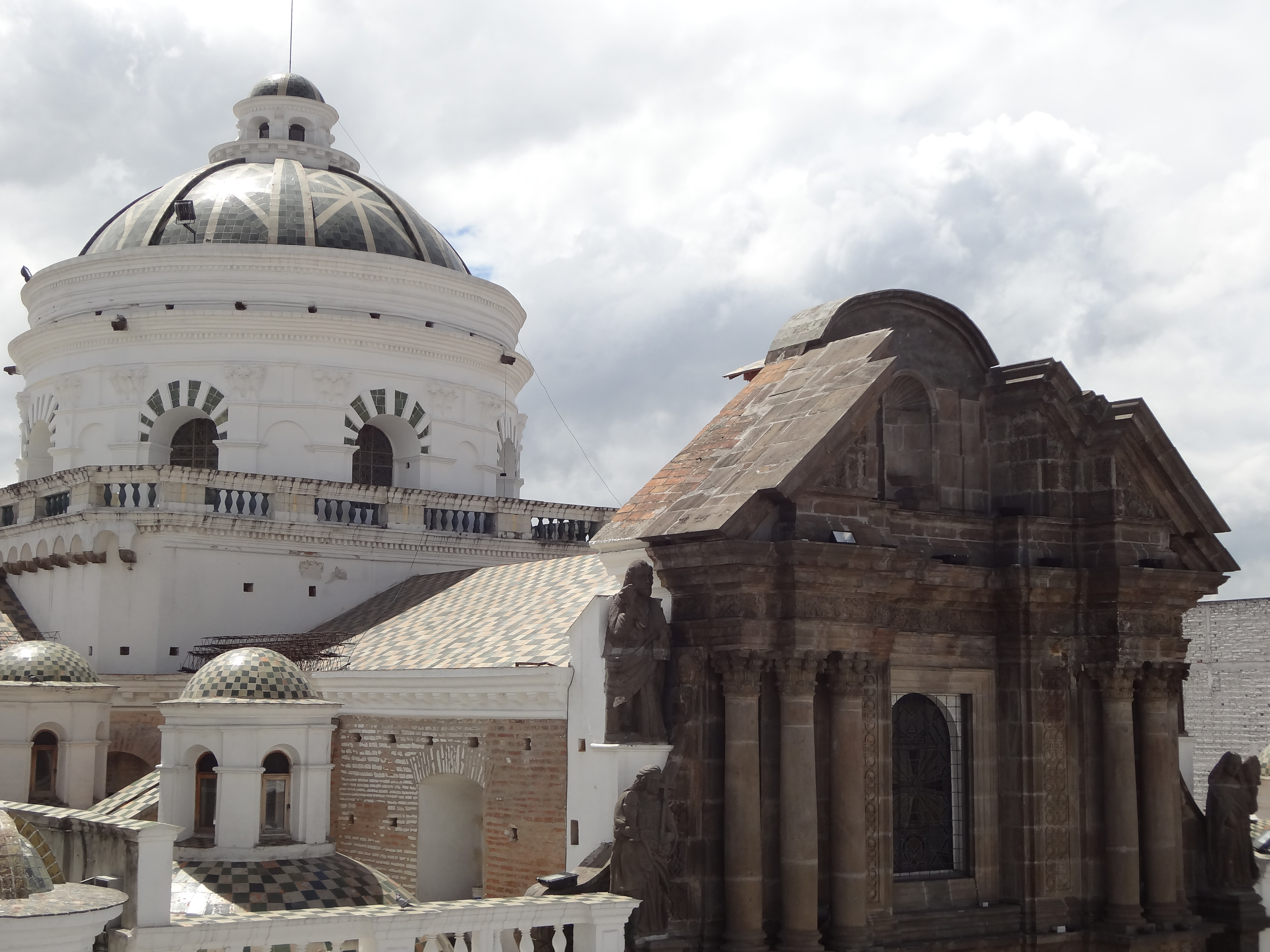 (Iglesia de El Sagrario, Quito) photographed from the roof of the Centro Cultural Metropolitano Photography by David Adam Kess